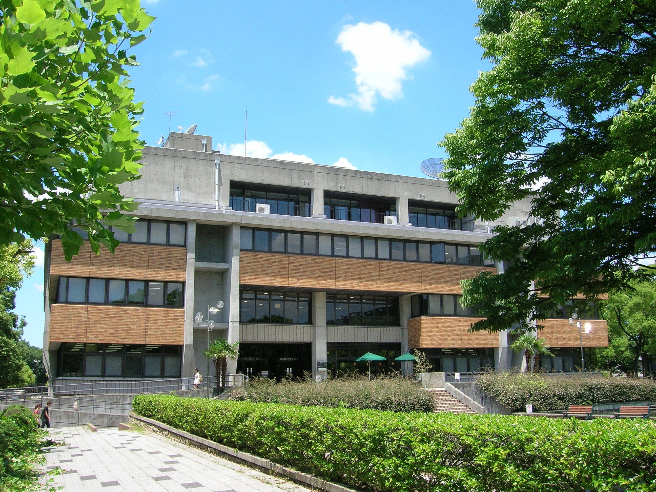 Nagoya Daigaku fuzoku Toshokan, Chuô Toshokan (Nagoya University Library, central library.) Loc: Chikusa-ku, Nagoya city, Aichi prefecture, Japan. 名古屋大学附属図書館・中央図書館（東山キャンパス）